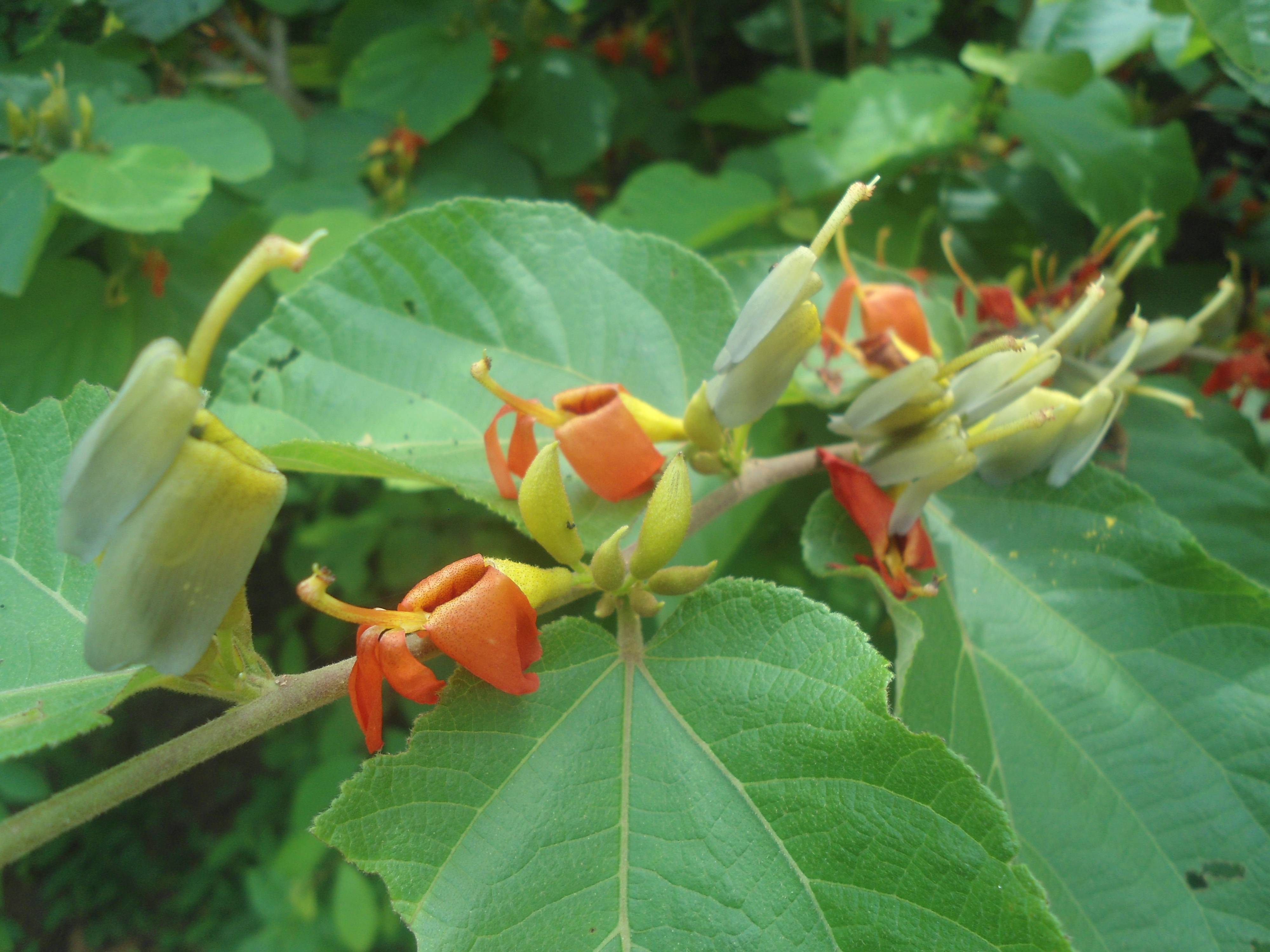 (Helicteres isora) East Indian screw tree at Kambalakonda wildlife Sanctuary, Visakhapatnam